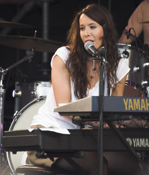 Nerina Pallot at Cornbury Music Festival